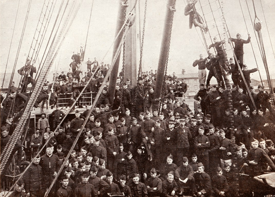 Transport der koloniale troepen naar NI